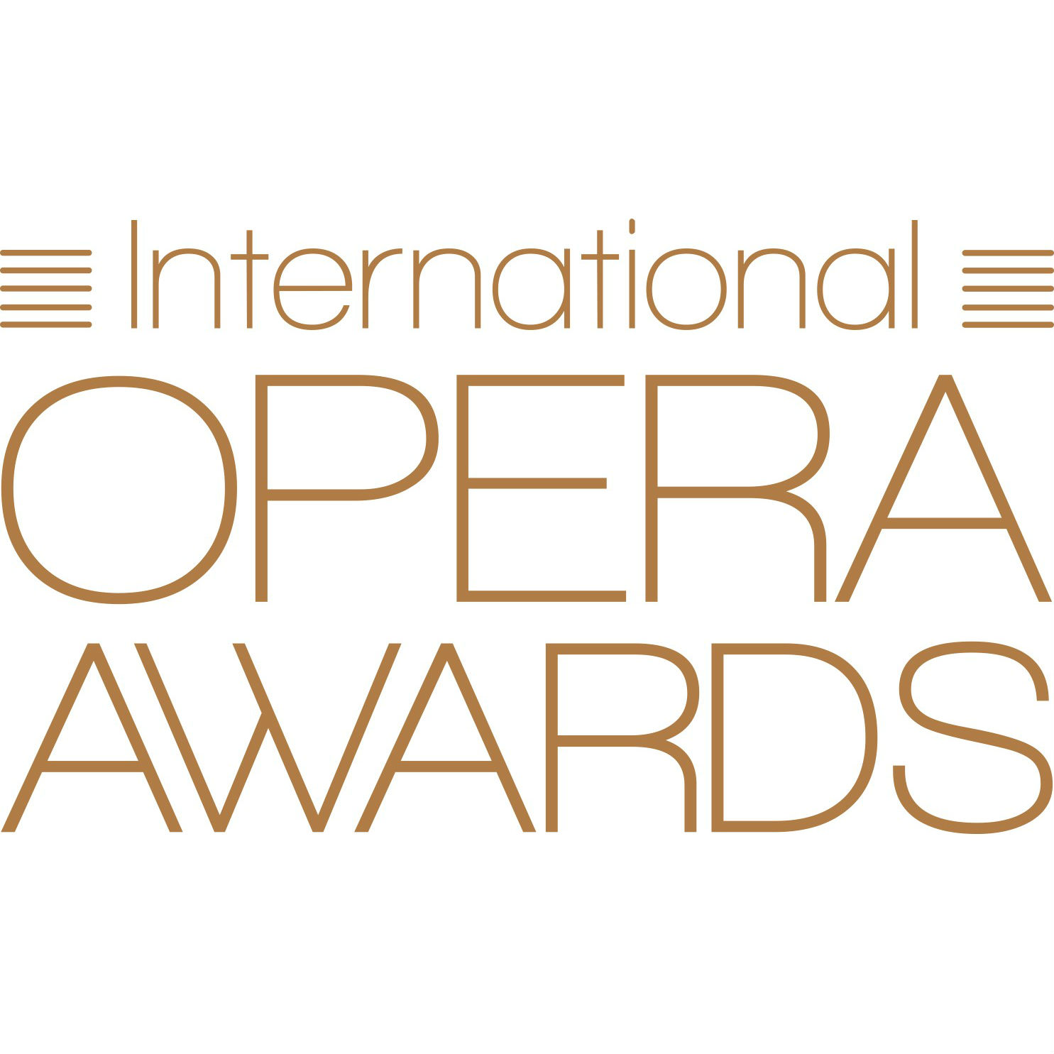 IOA